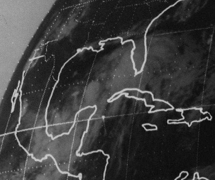 Visible satellite image of Subtropical Storm One (right) and Tropical Depression One (near Yucatan Peninsula) on June 24, 1974.